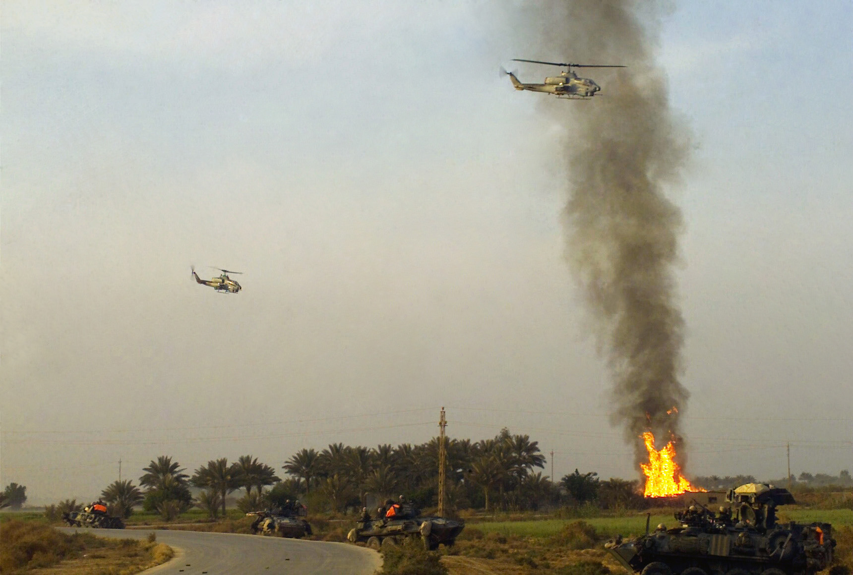 Two US Marine Corps (USMC) AH-1W Super Cobra helicopters provides close air-support during a firefight between elements of D/Company, 1st Light Armored Reconnaissance Battalion (LAR) and Iraqi Forces during an ambush by Iraqi soldiers in Northern Iraq, during Operation IRAQI FREEDOM.